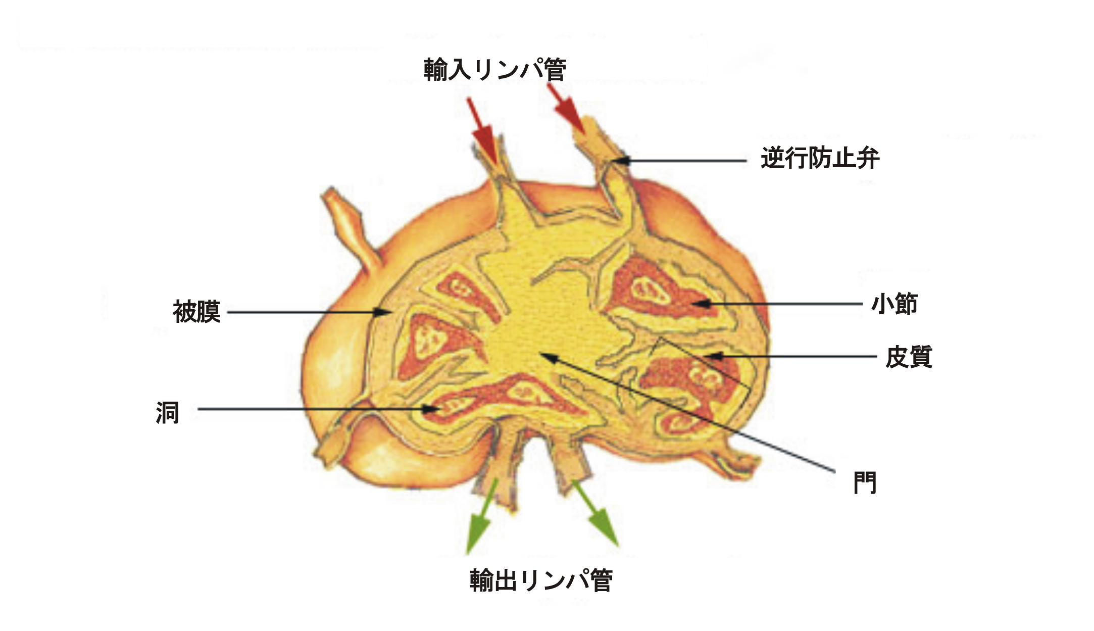 Lymph node Japanese labels are substtuted for English ones.